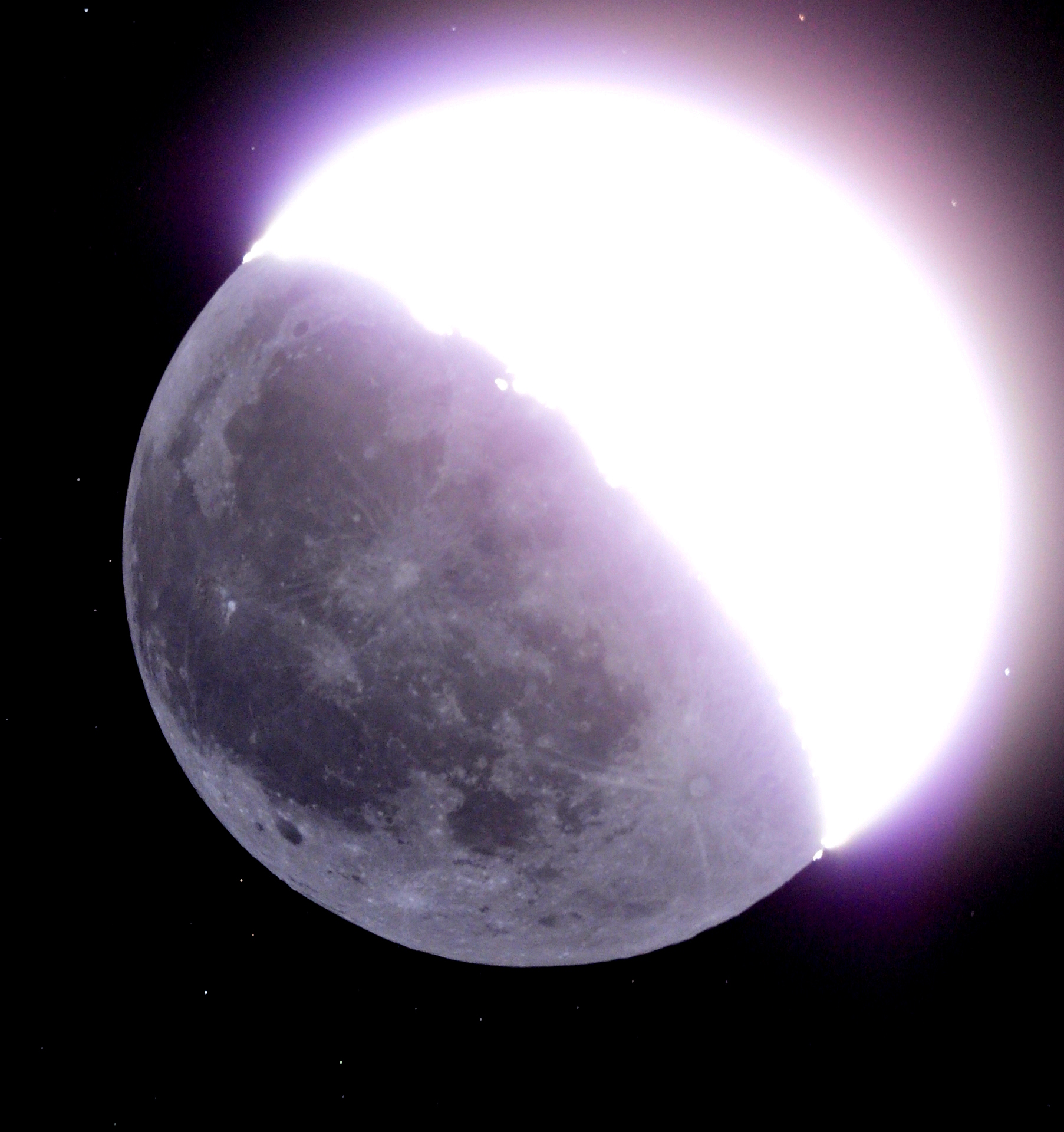 Earthshine reflecting off the Moon. Photo taken in Longjing Township, Taichung County, Taiwan on 20 April 2010, 19:15 (UTC+8) by 阿爾特斯. At that time, the Moon was moving near by Gemini.